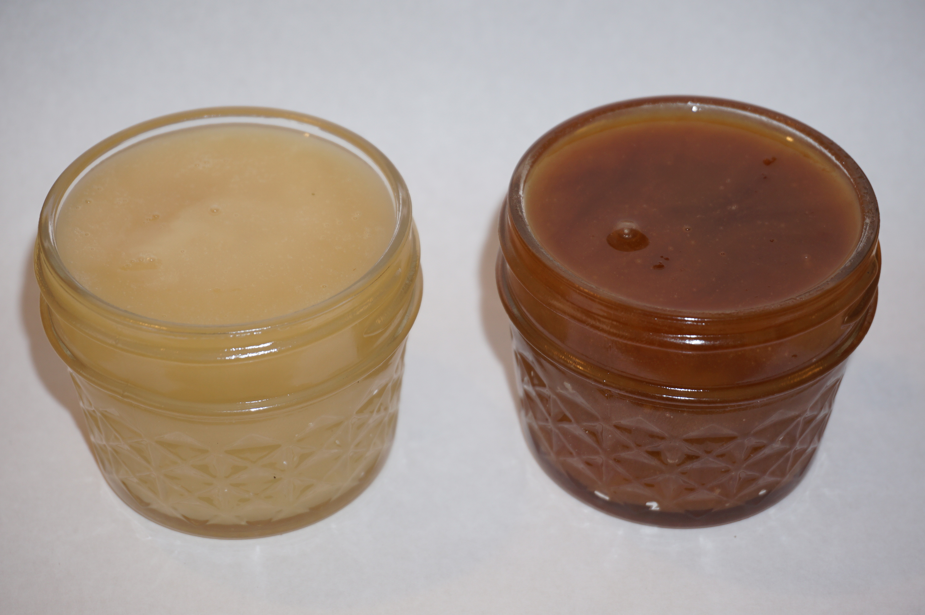 Creamed honey of a common US brand labeled as "clover honey." The jar on the left is fresh, while the jar on the right has been aged at room temperature for two years. The darkening occurs due to a chemical reaction between the amino acids and the sugar, producing pigmented substances called melanoidins, which add a rich unami flavor to the honey, giving it a more toffee-like taste.